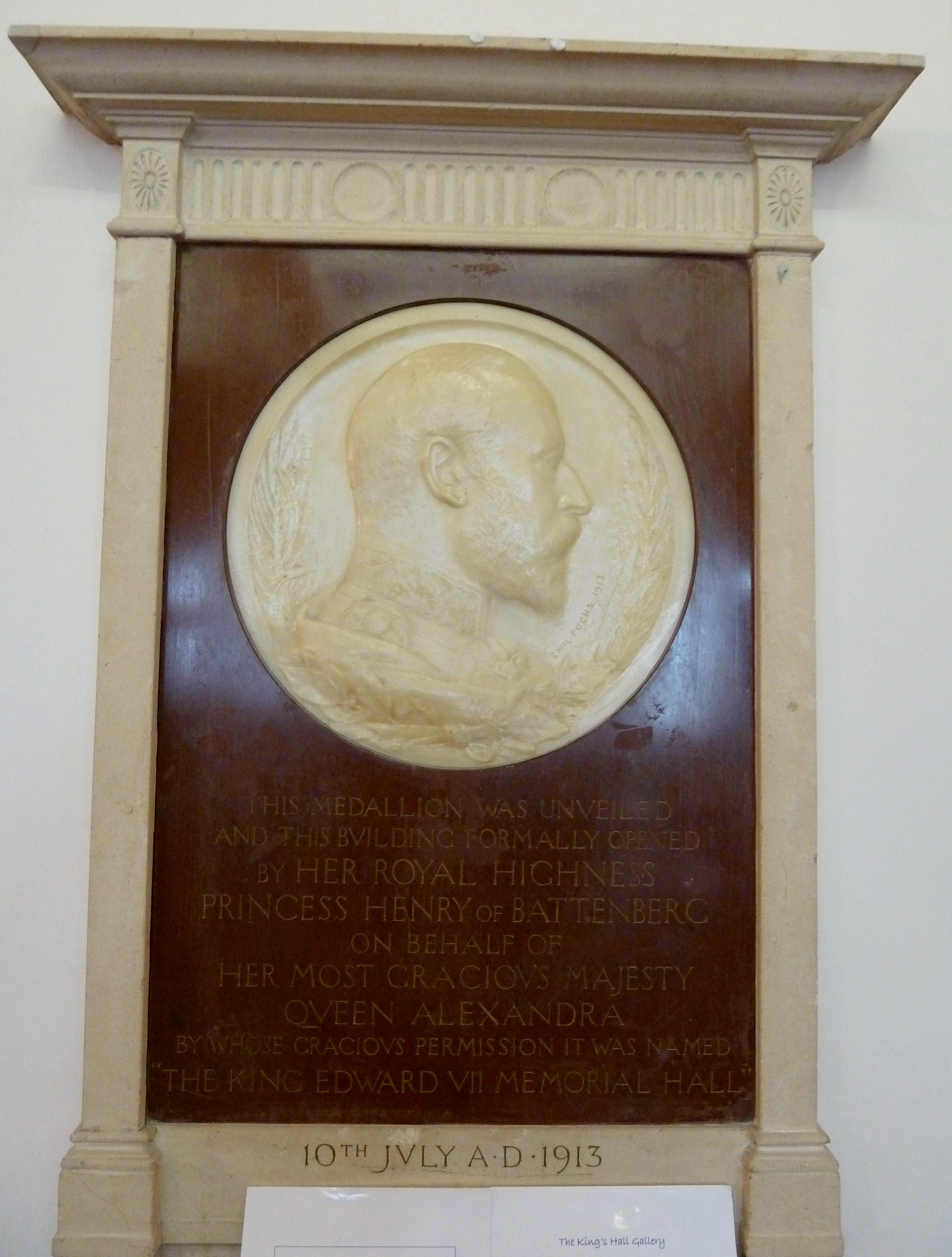 Kings Hall, Herne Bay, Kent England. Framed marble wall plate for medallion plaque of Edward VII of the United Kingdom, 1913 by Emil Fuchs. The dedication says:"This medallion was unveiled and the building formally opened by Her Royal Highness Princess Henry of Battenburg on behalf of her most gracious majesty Queen Alexandra by whose gracious permission it was named "The King Edward VII Memorial Hall". 10th July AD 1913"